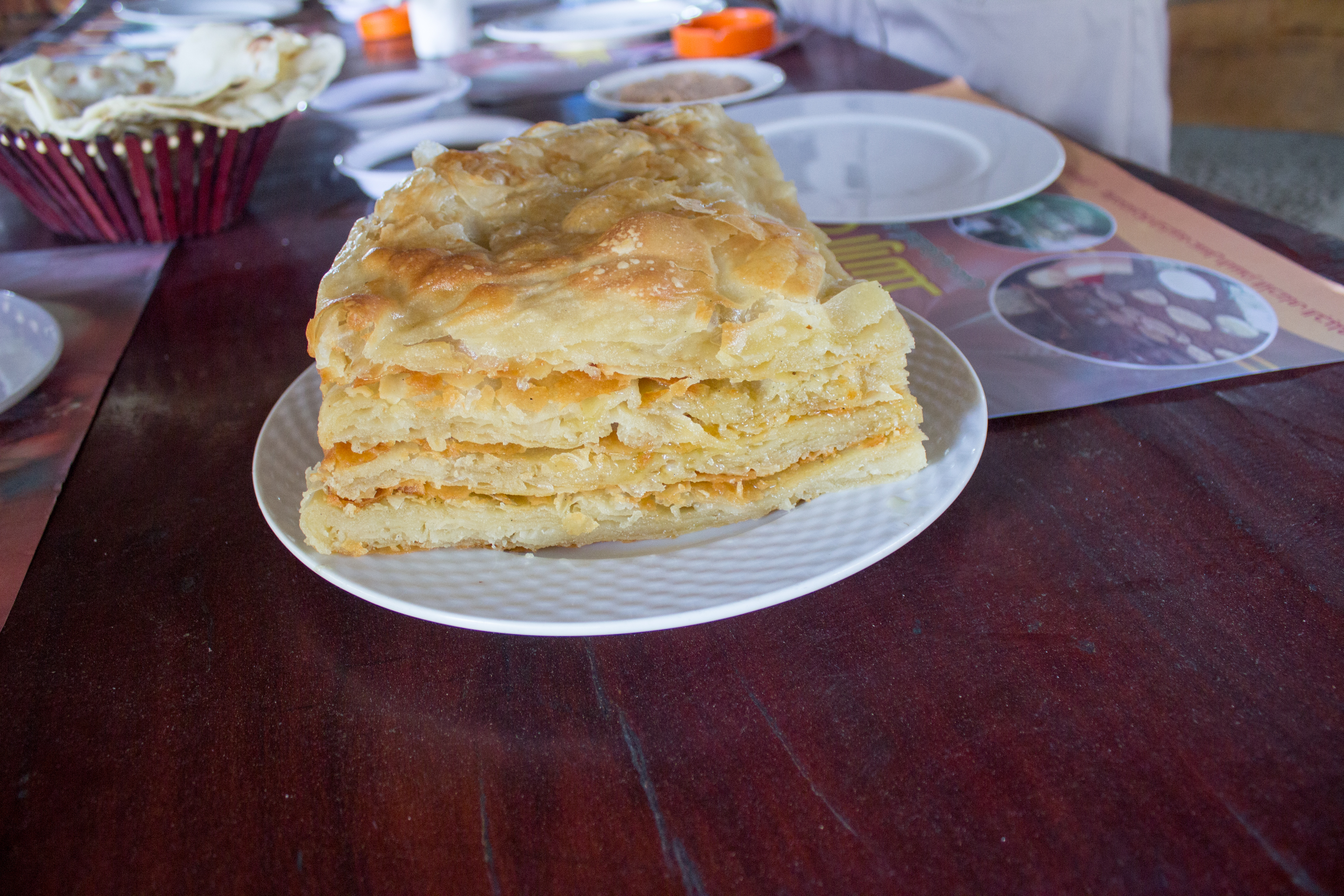 فطير مشلتت